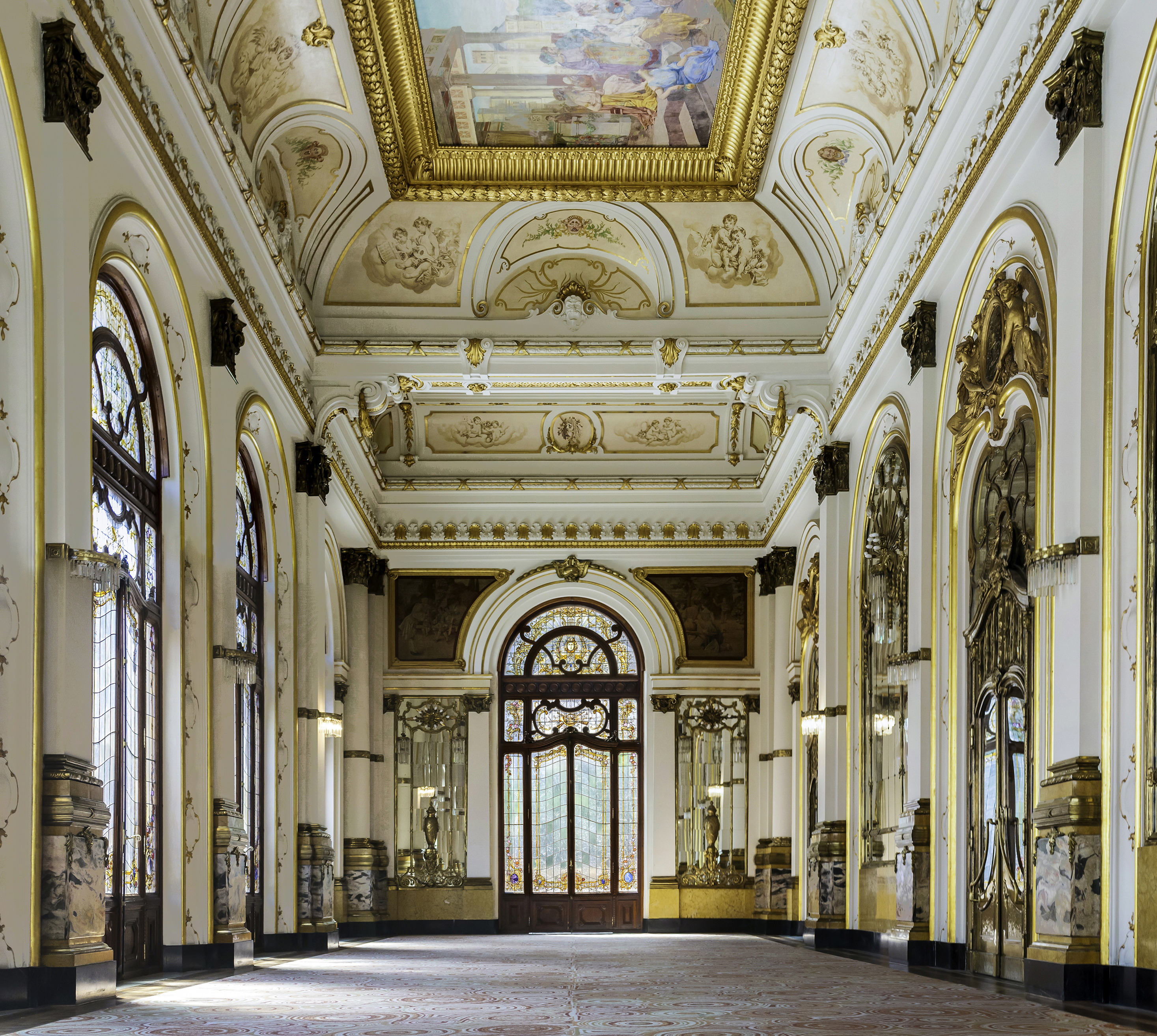 Interior Teatro Municipal de São Paulo